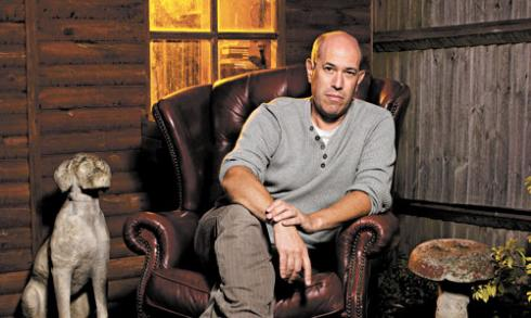 this is a picture of Mark Glanville in London in 2009.